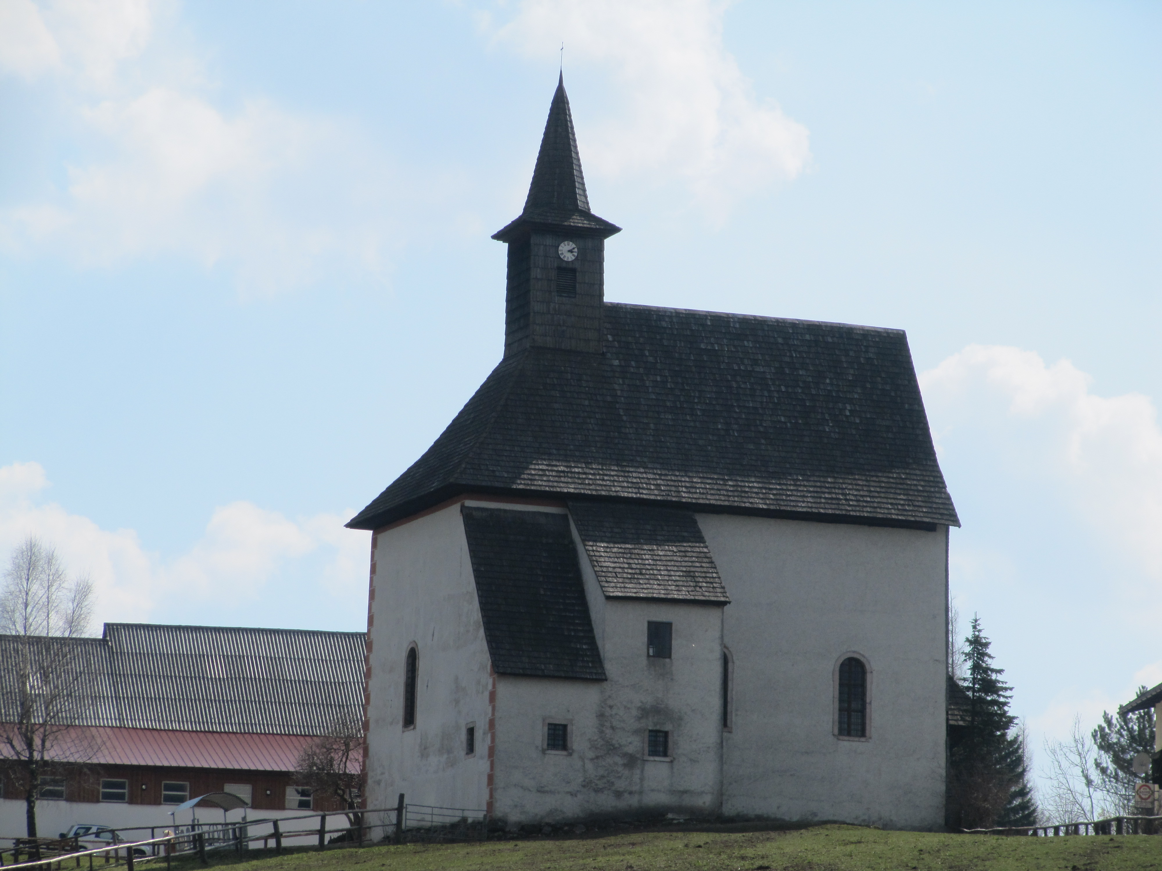 Catholic church on the Joachimsberg